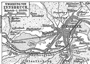 Historical map of Innsbruck; detail: Innsbruck West